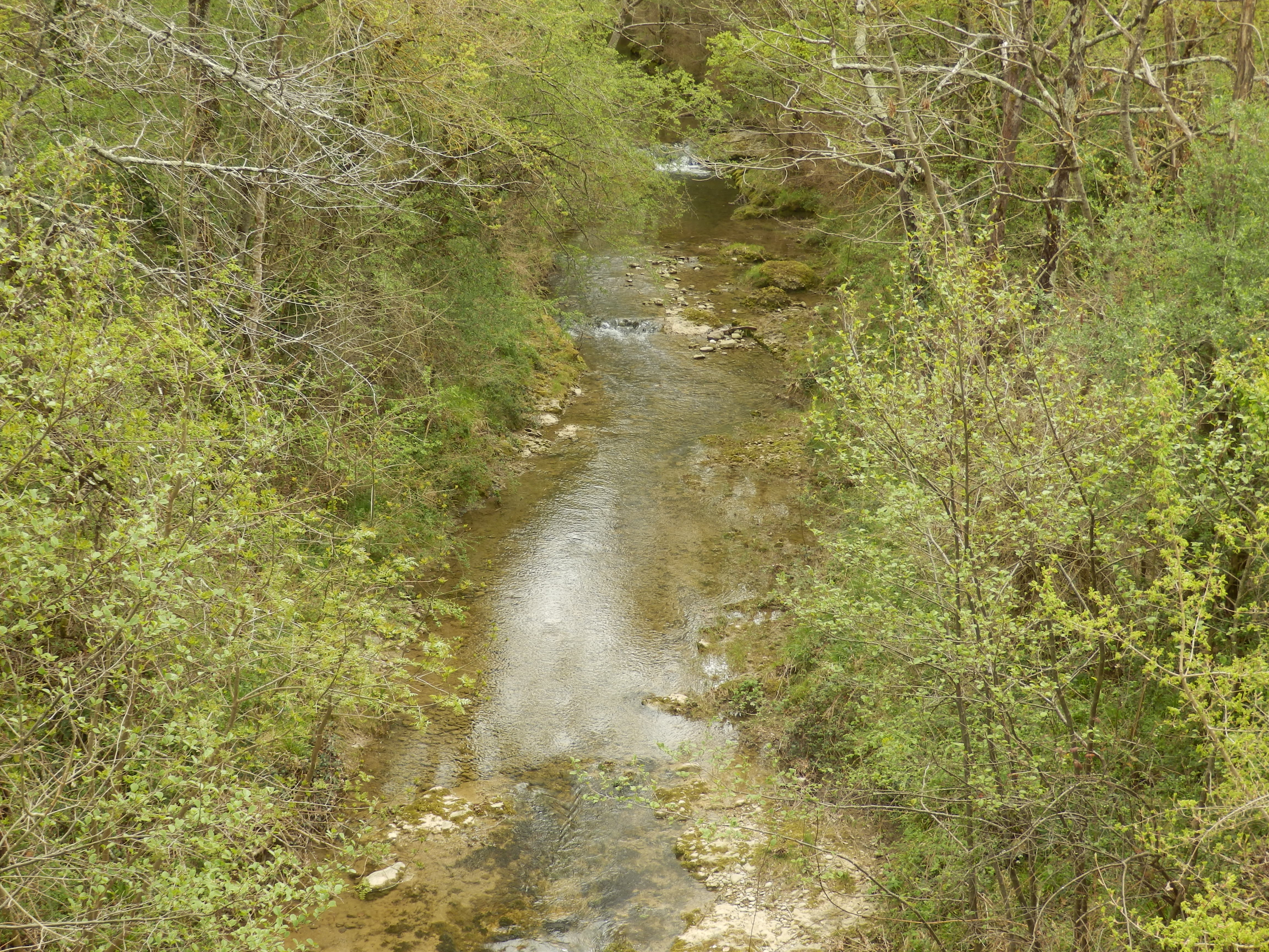 Ambronne river in Courtauly, Aude, France